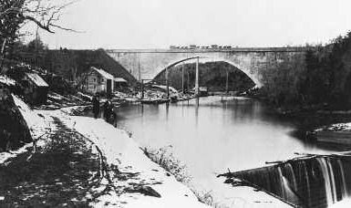 View of Union Arch Bridge, Cabin John, Maryland, USA, 1863